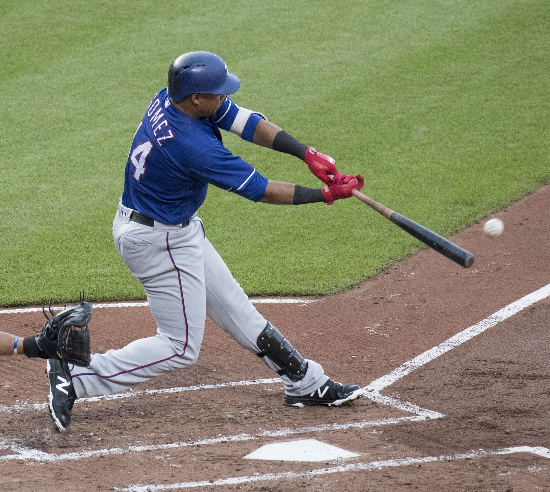 Rangers at Orioles 7/17/17